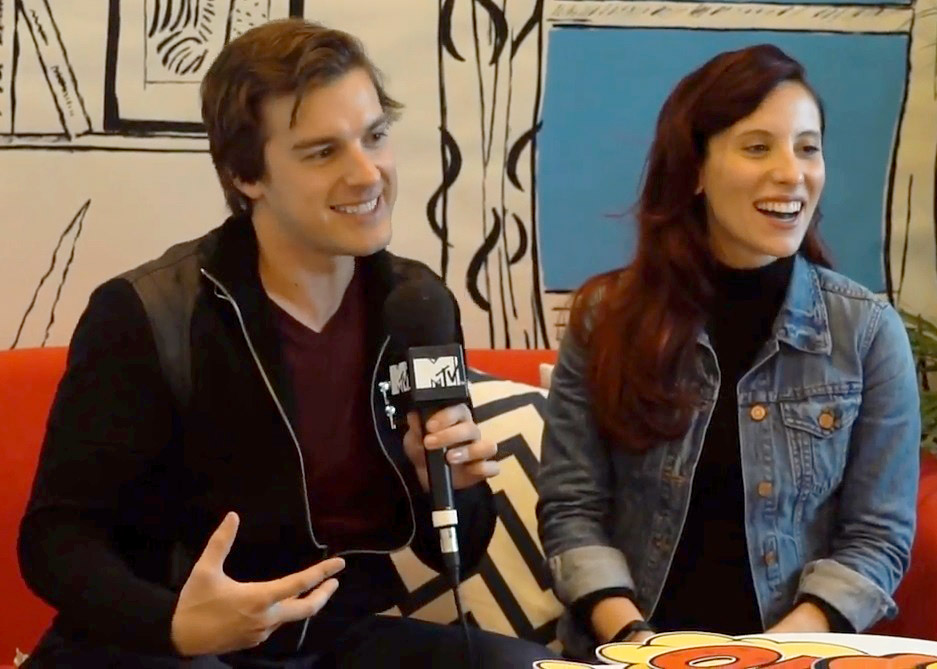 Matthew Patrick and Stephanie Patrick in an MTV interview in 2018